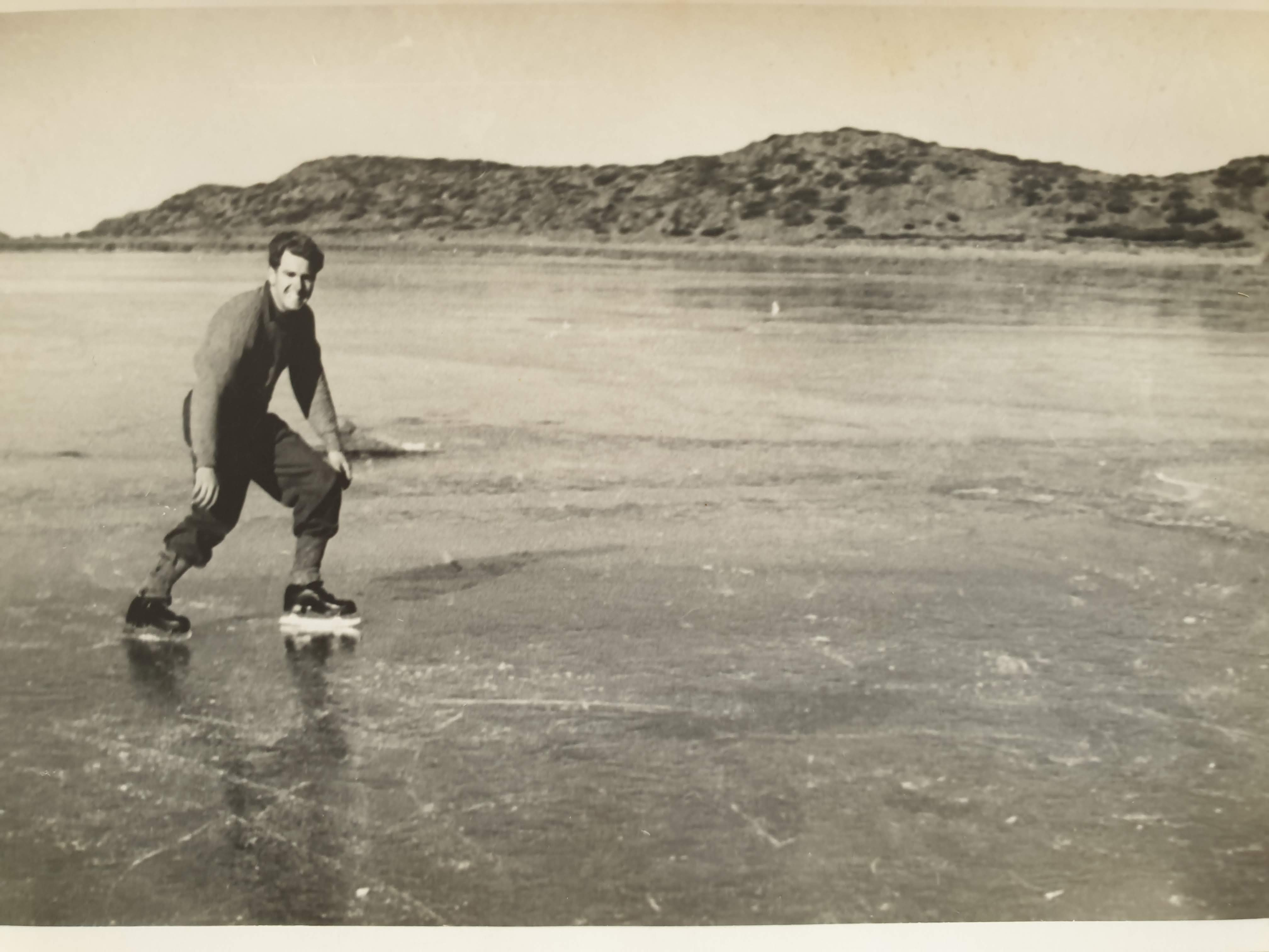 Clive French from a Launceston Walking Club trip, skating on Lake Youl c.1950 - photo courtesy Bob Gray